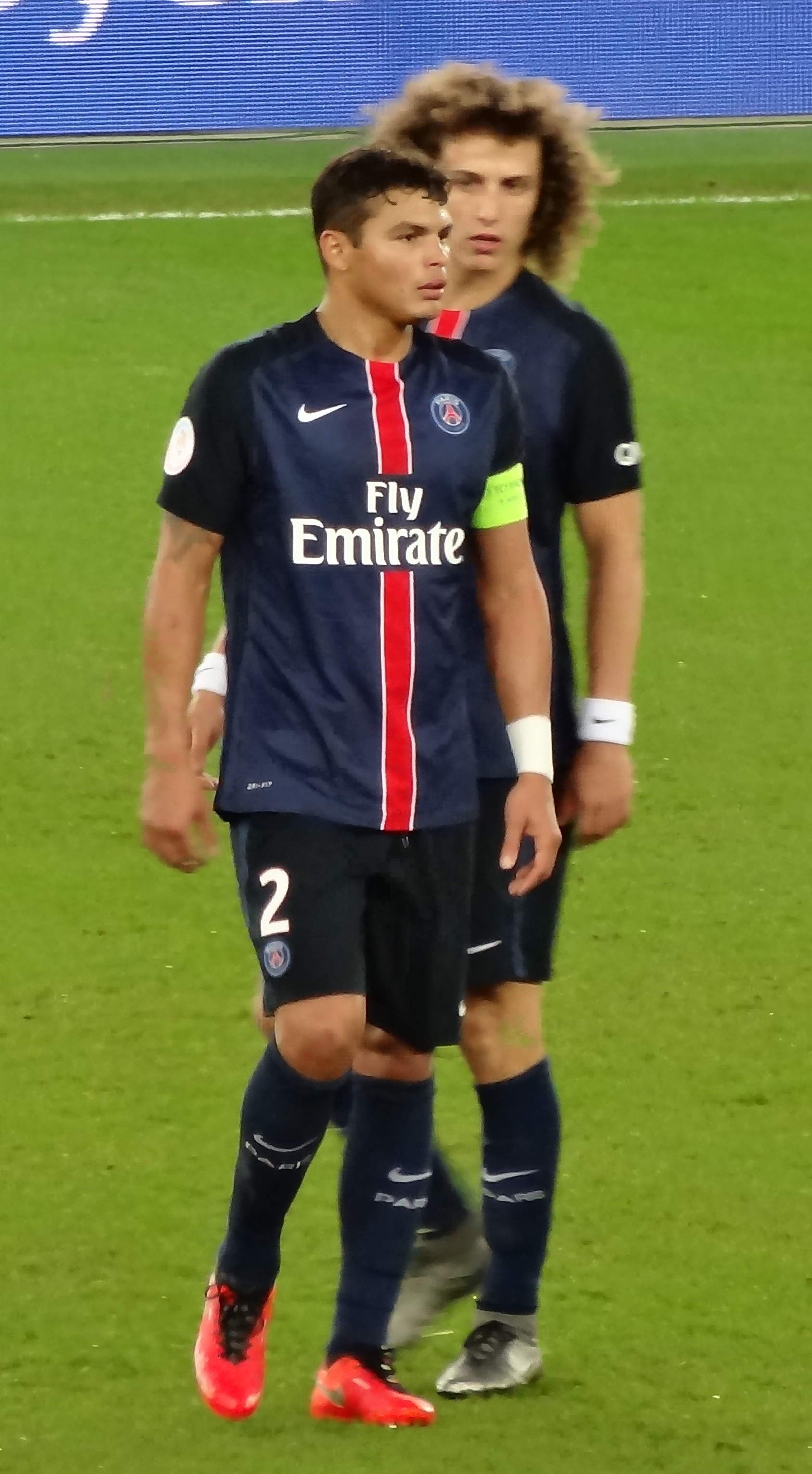 Thiago Silva & David Luiz (PSG 2015-2016)